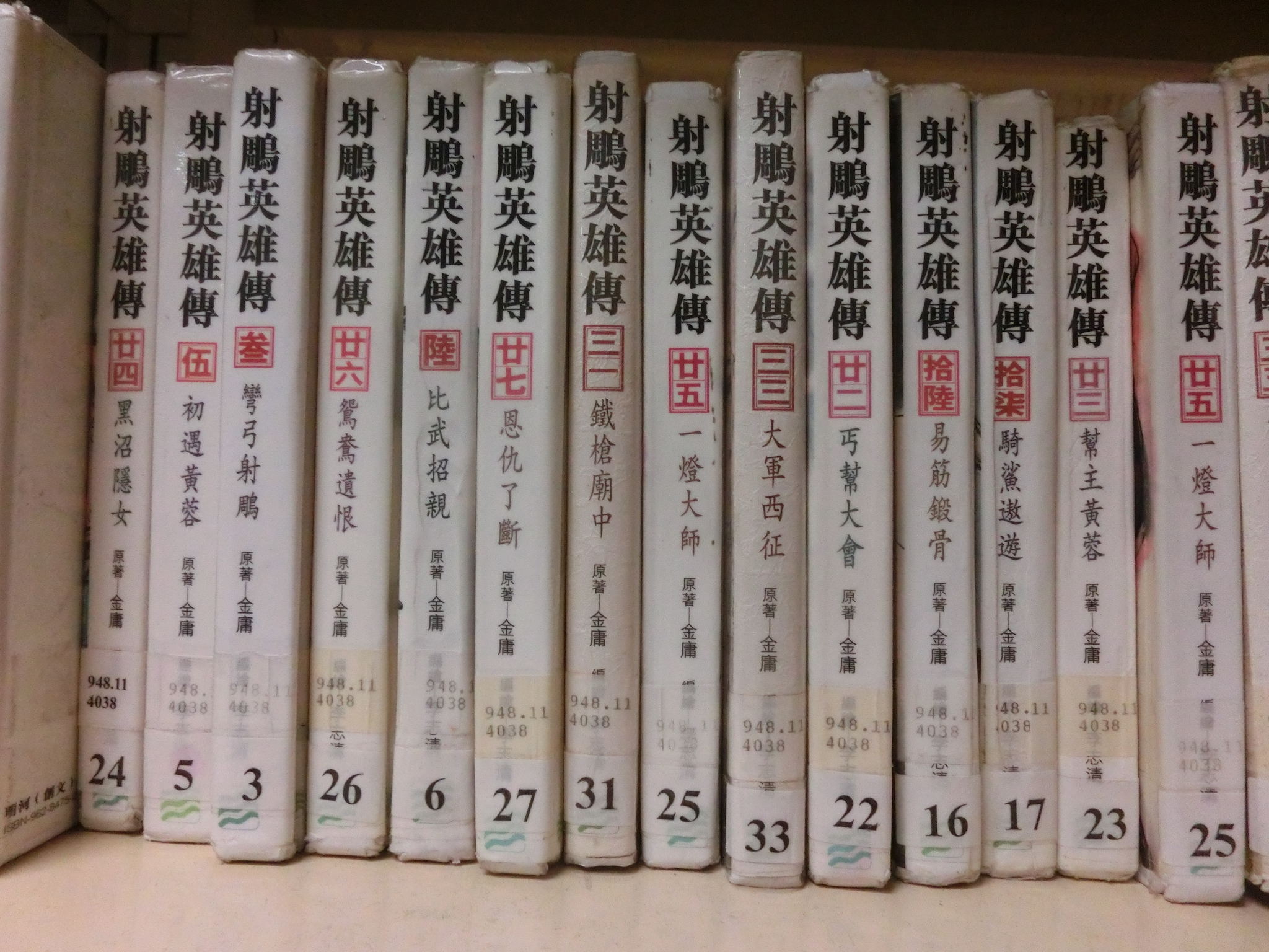 長洲公共圖書館, Cheung Chau Public Library, Hong Kong